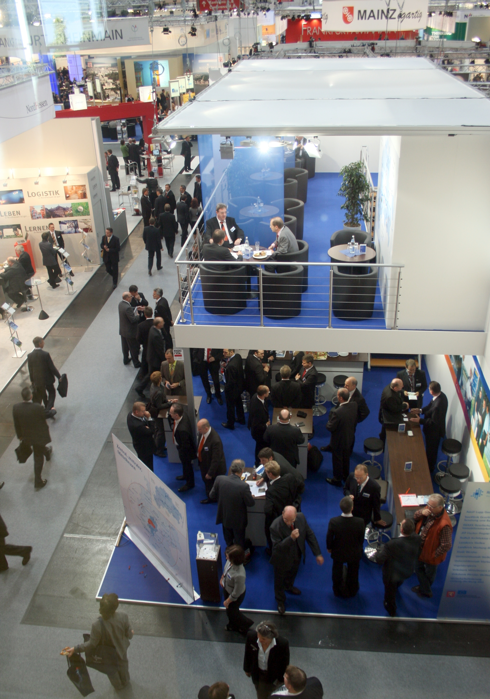 Trade fair for commercial real estate business "Expo Real" in Munich, View in the Boot C1